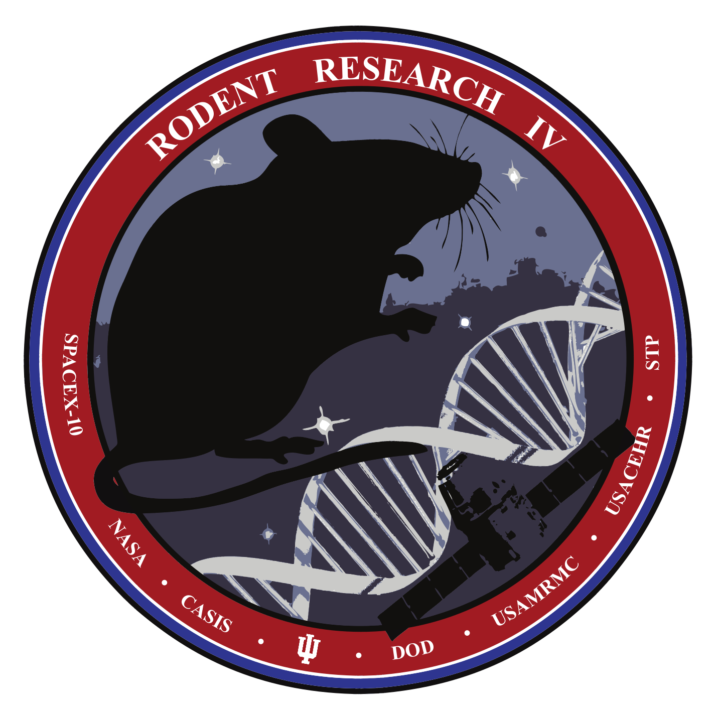 This is the NASA mission patch for the Rodent Research-4 Experiment.